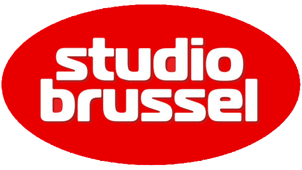 Logo of Studio Brussel